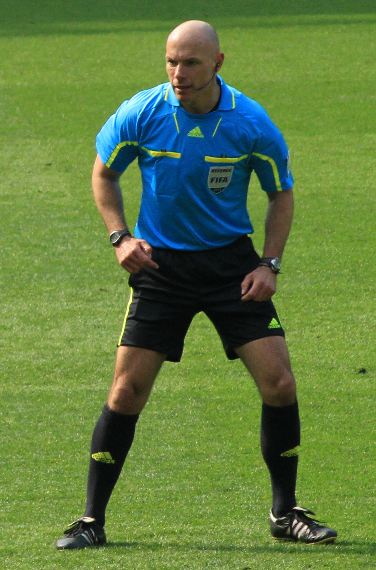 James McArthur and Neymar